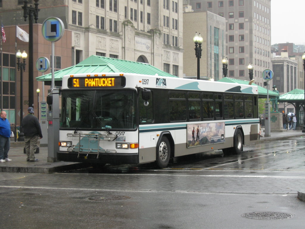 RIPTA Gillig Low Floor G27E102R2 #0517 picks up customers at Kennedy Plaza in downtown Providence, RI.